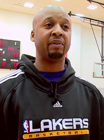 The Los Angeles Lakers show some local DC kids a thing or two on the court before they head to the White House to be congratulated by President Obama. Brian Shaw screenshot.